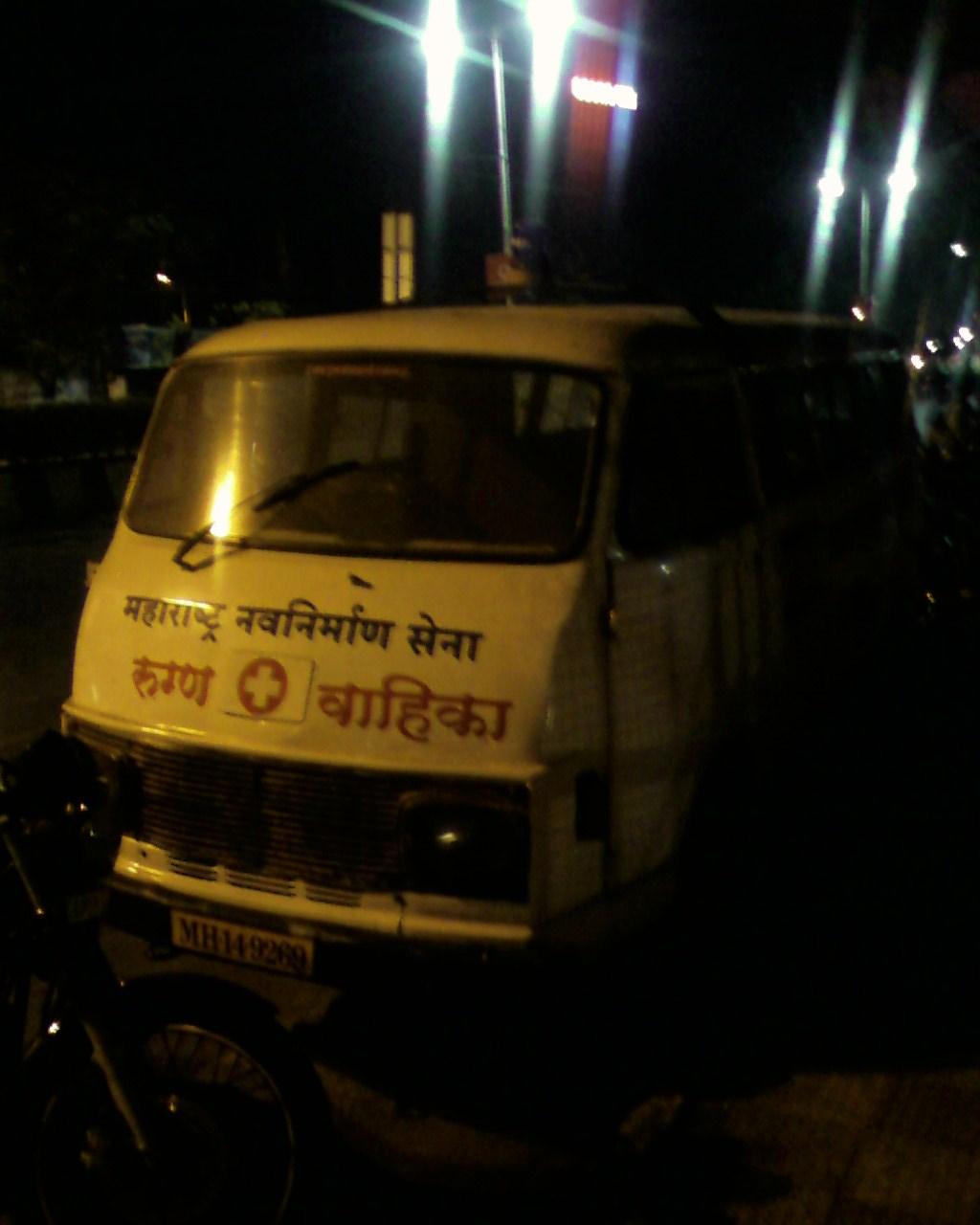 Ambulance of MNS in Pune.